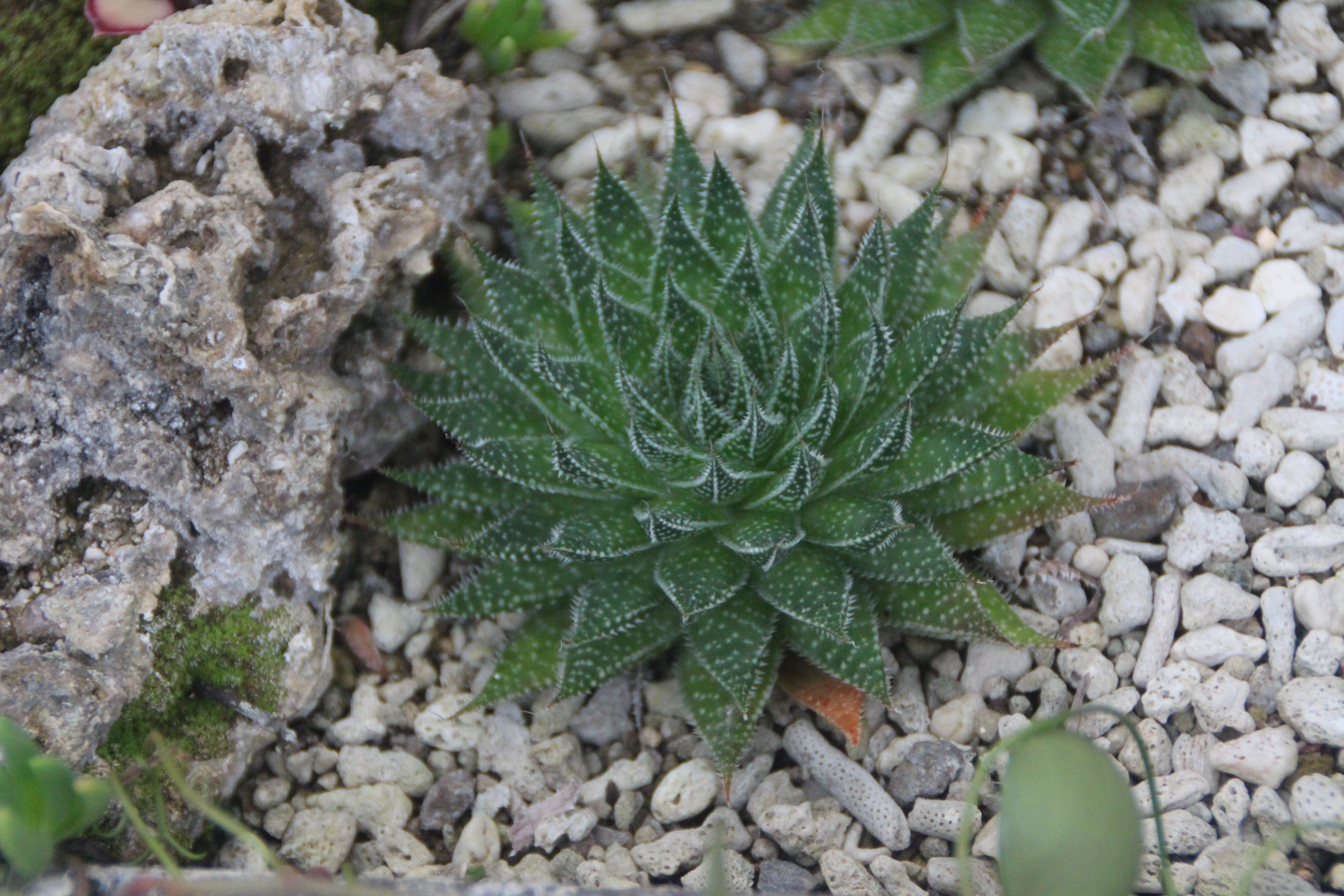 Aloe aristata. Incorrectly labelled as Haworthia fasciata 'Concolor'